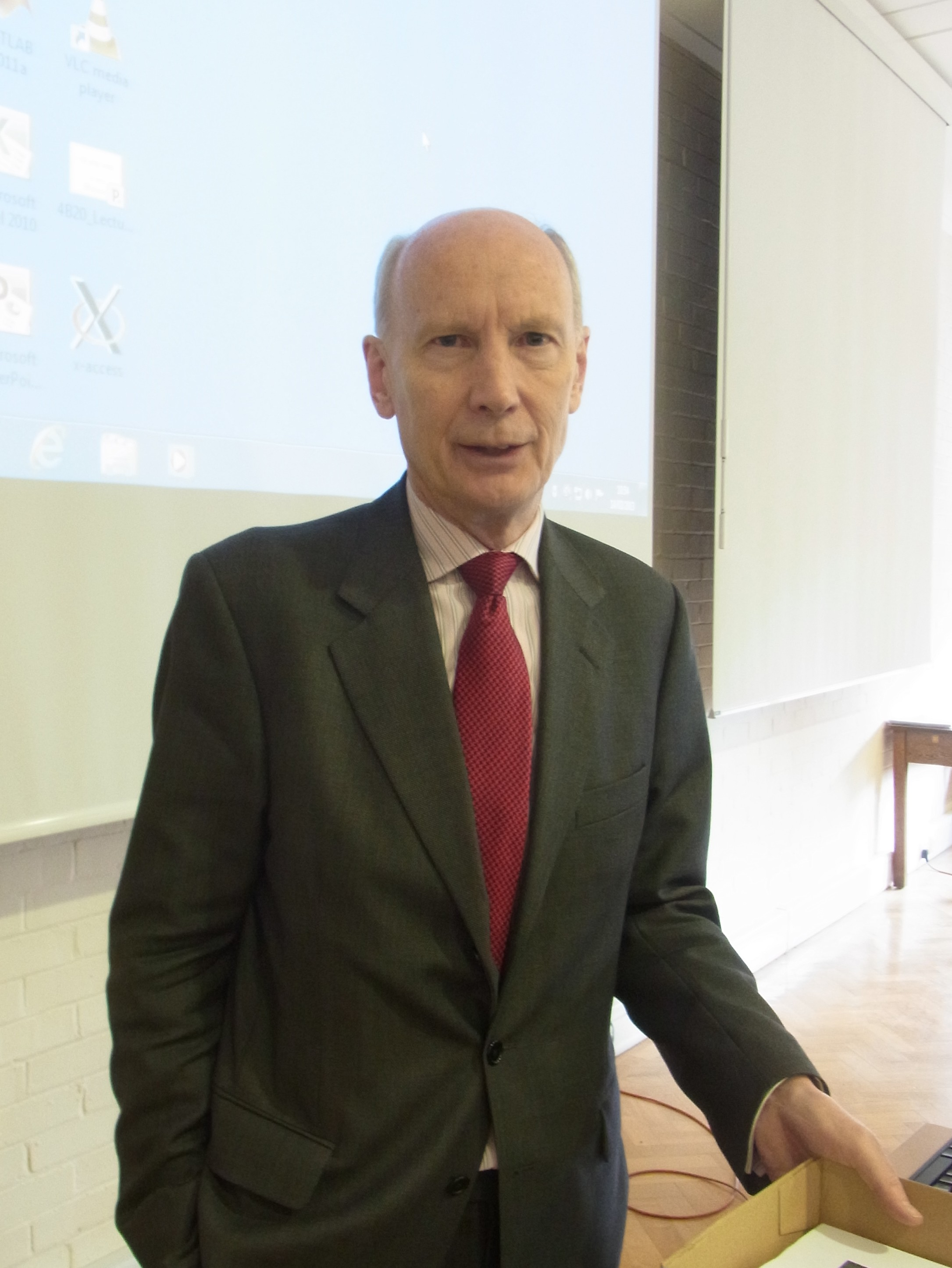 Robert Mair delivering his lecture course on ground engineering at Cambridge University Engineering Department, February 2013